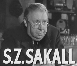 Cropped screenshot of S. Z. Sakall from the trailer for the film Whiplash